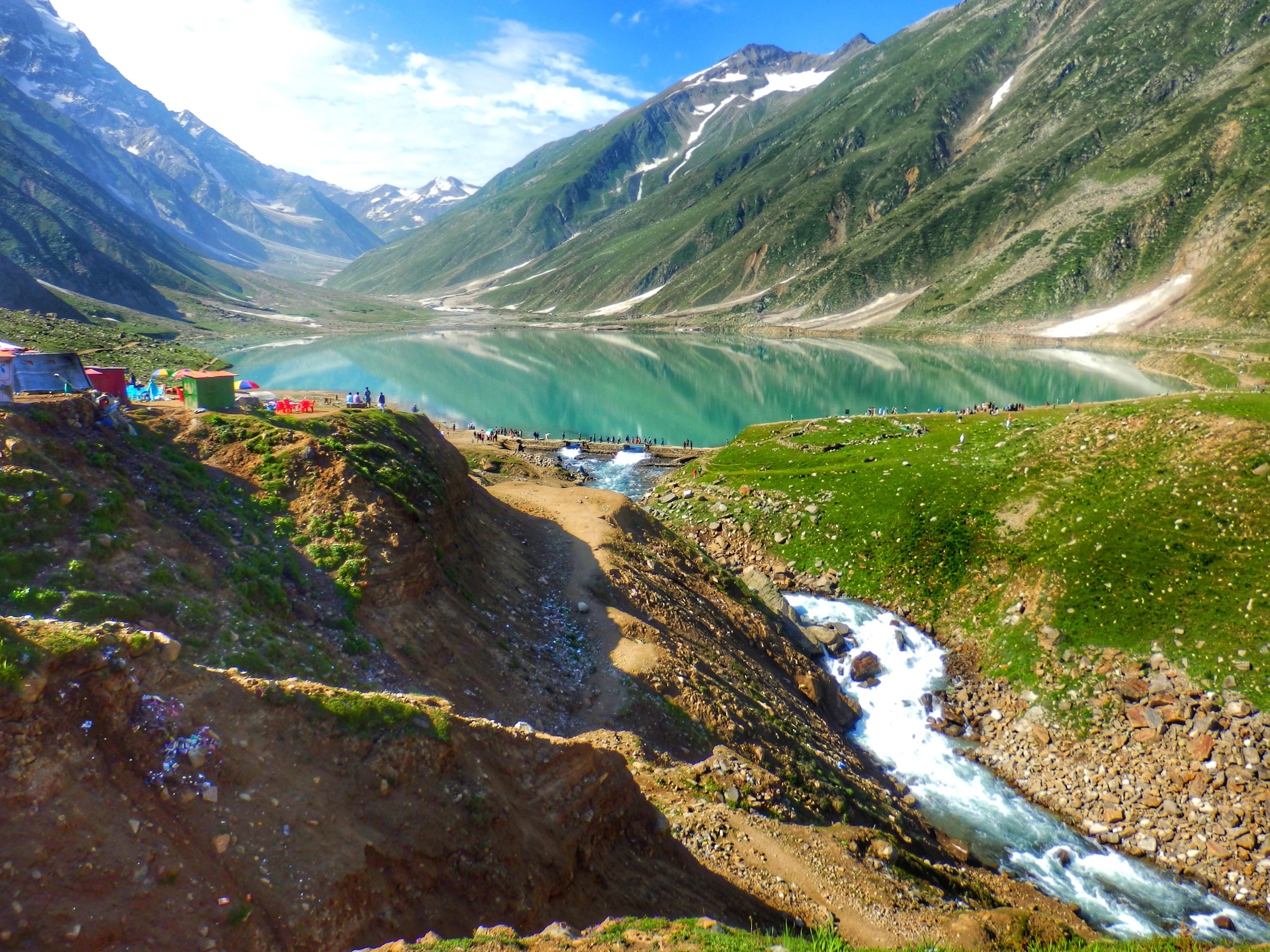 This is the image of Saif ul malook lake in northern area of Pakistan.